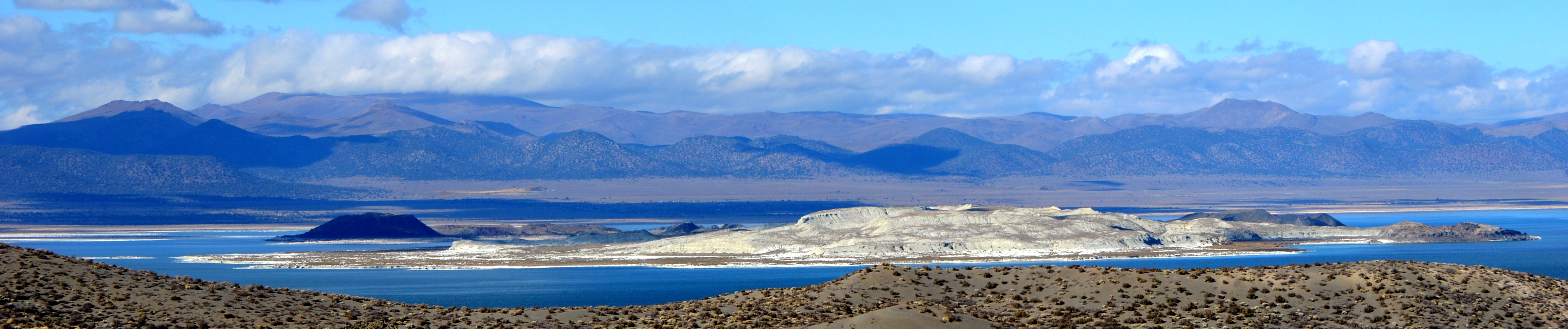 Mono Lake, as seen from SR 120 on south, between U.S. Route 395 and the entrance to the "South Tufa" area. This road (or part of it) can be closed during winter due to snow. The Mono Lake Committee provides road condition updates here.